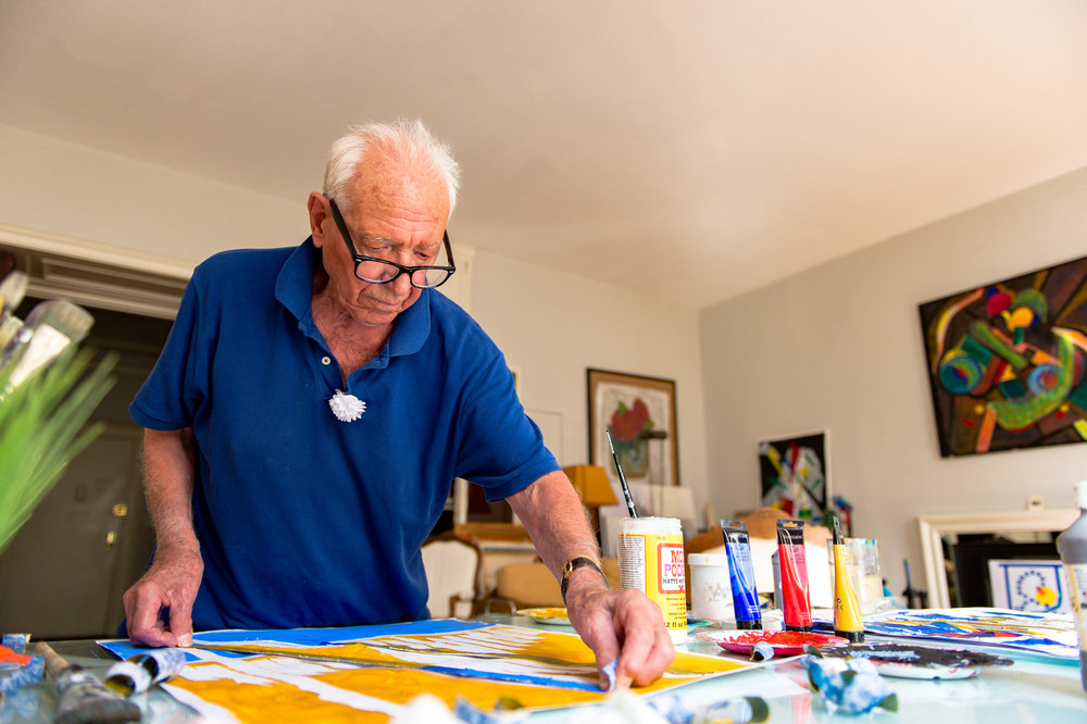 Artist Ron Ferri in his studio